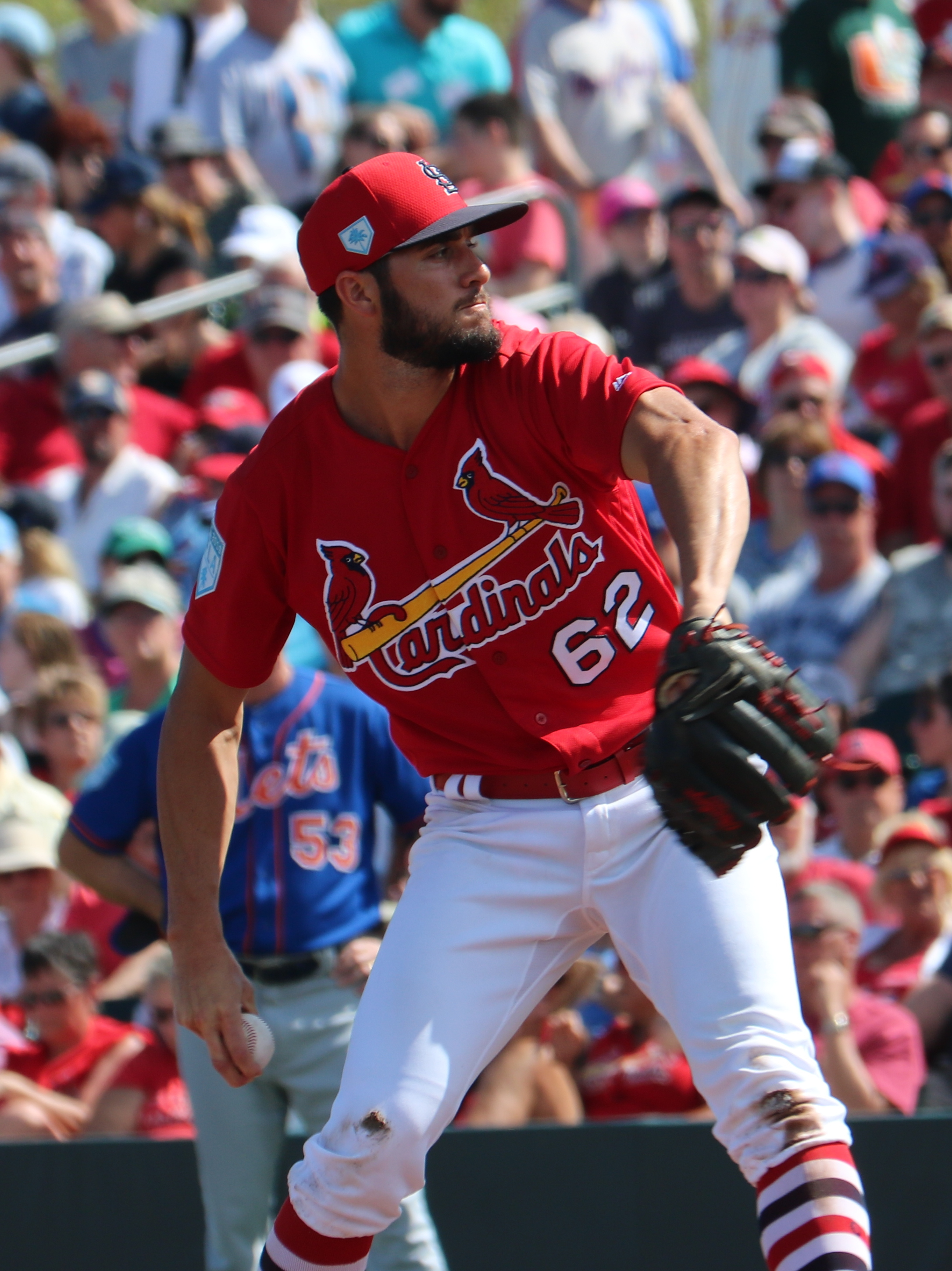 Daniel Ponce de Leon pitches, March 3, 2019